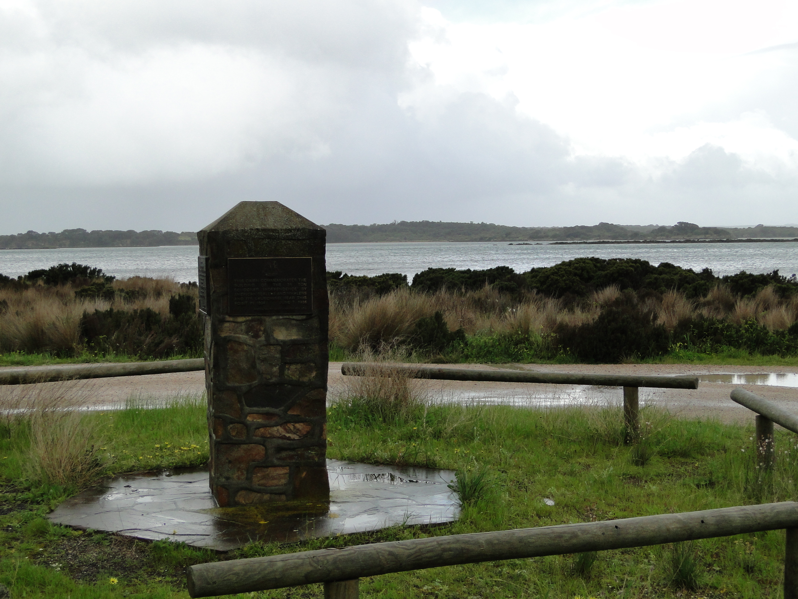 This cairn marks the spot where American sealers built and launched a 35 ton schooner, the "Independence" in 1804, at American River, Kangaroo Island, South Australia.